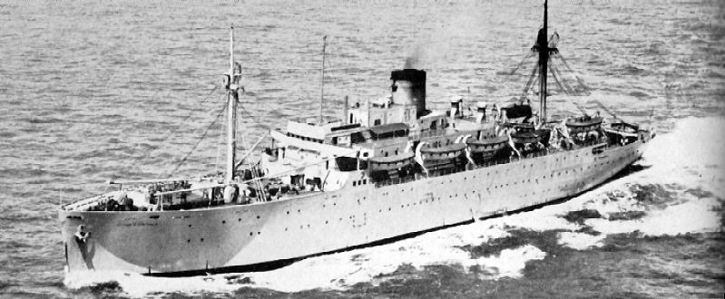 USNS George W. Goethals (T-AP-182) underway, circa 1952, location unknown.